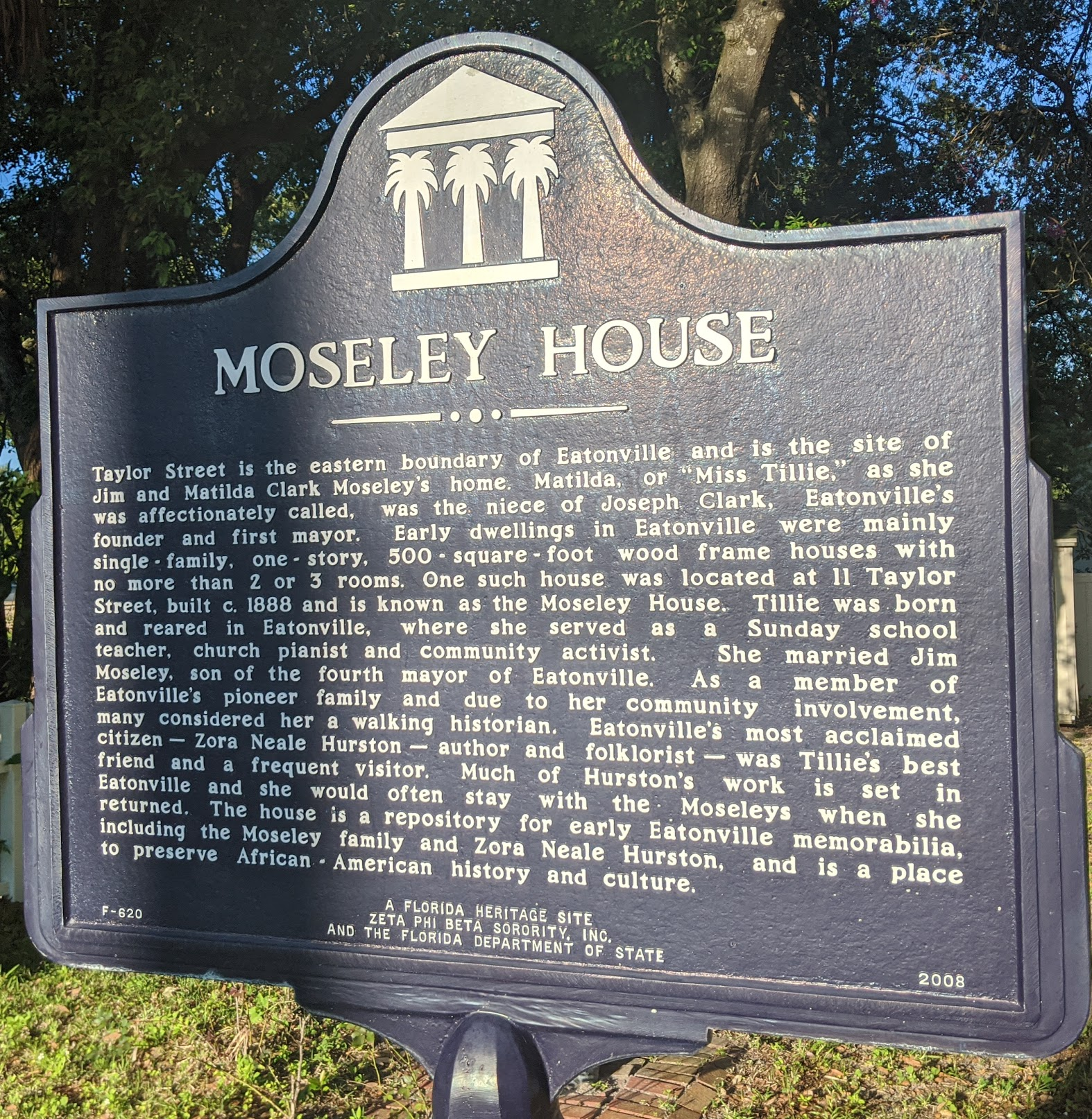 Historical marker placed at the Moseley House Museum